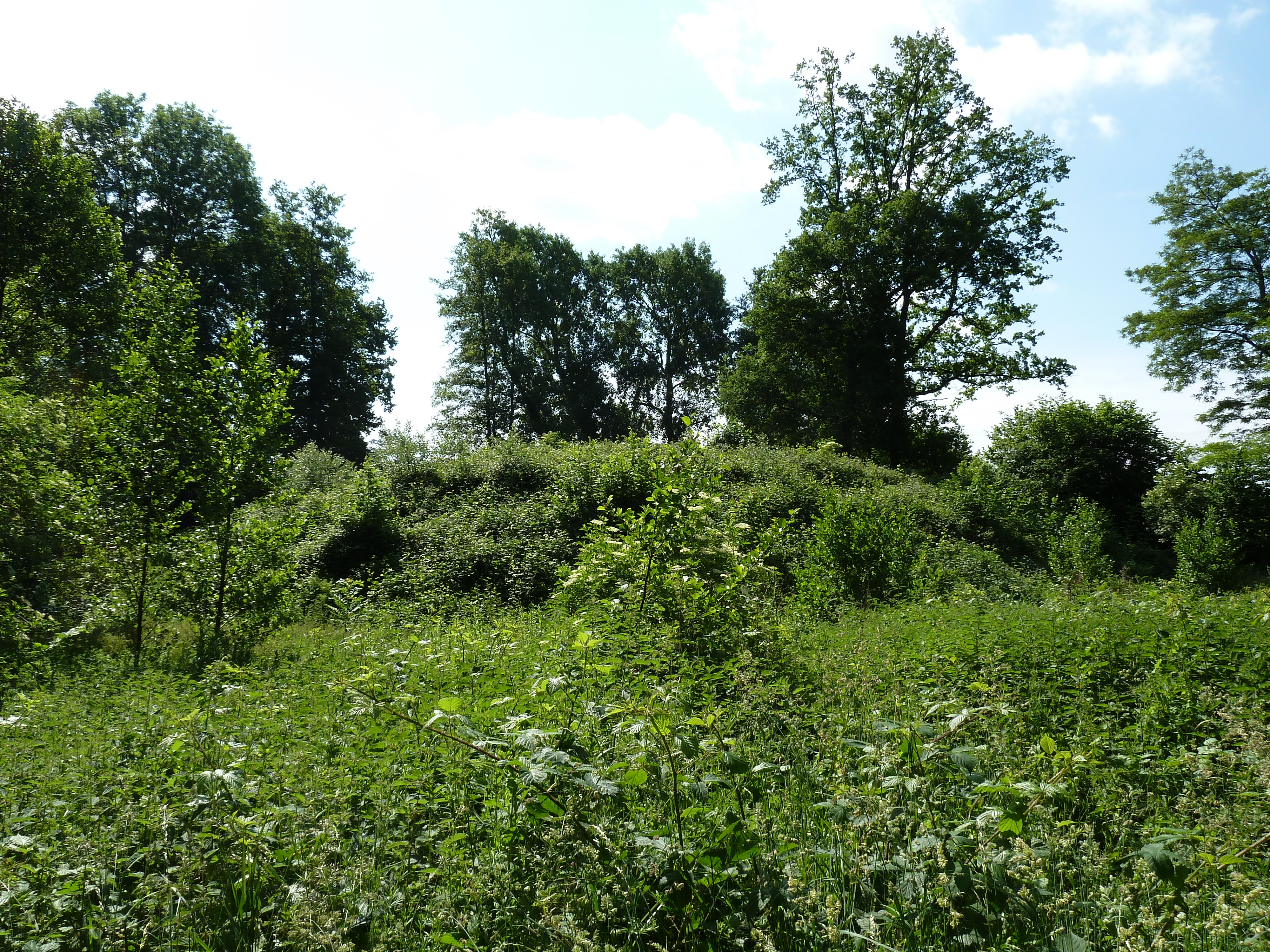 Motte De Vossenberg, Schinveld, the Netherlands